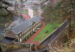 A World Heritage site